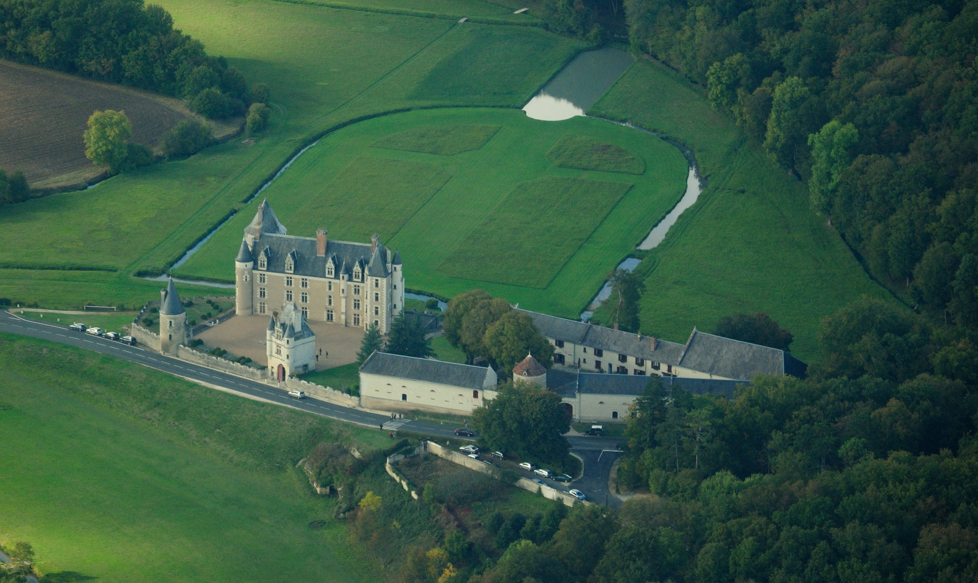 Aerial view of Montpoupon castle at Céré-la-Ronde (Indre-et-Loire department, France). Nikon D60 f=105mm f/5.6 at 1/500s ISO 400. Processed using Nikon ViewNX 1.3.0 and GIMP 2.6.6.